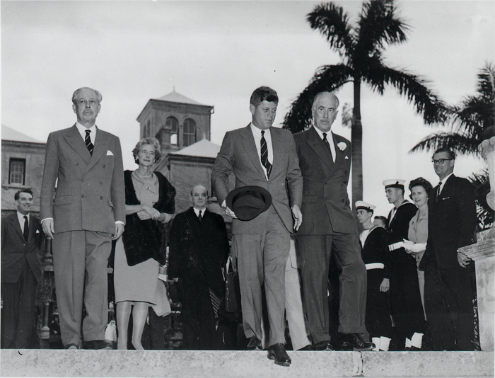 Description: The famously hatless President Kennedy leaves Goverment House in Bermuda clutching a fedora followed by British Prime Minister Harold Macmillan and his wife Dorothy. Macmillan was keen to negotiate British access to American nuclear technology. Date: December 1961 Our Catalogue Reference: CO 1069/268 This image is from the collections of The National Archives. Feel free to share it within the spirit of the Commons. For high quality reproductions of any item from our collection please contact our image library.